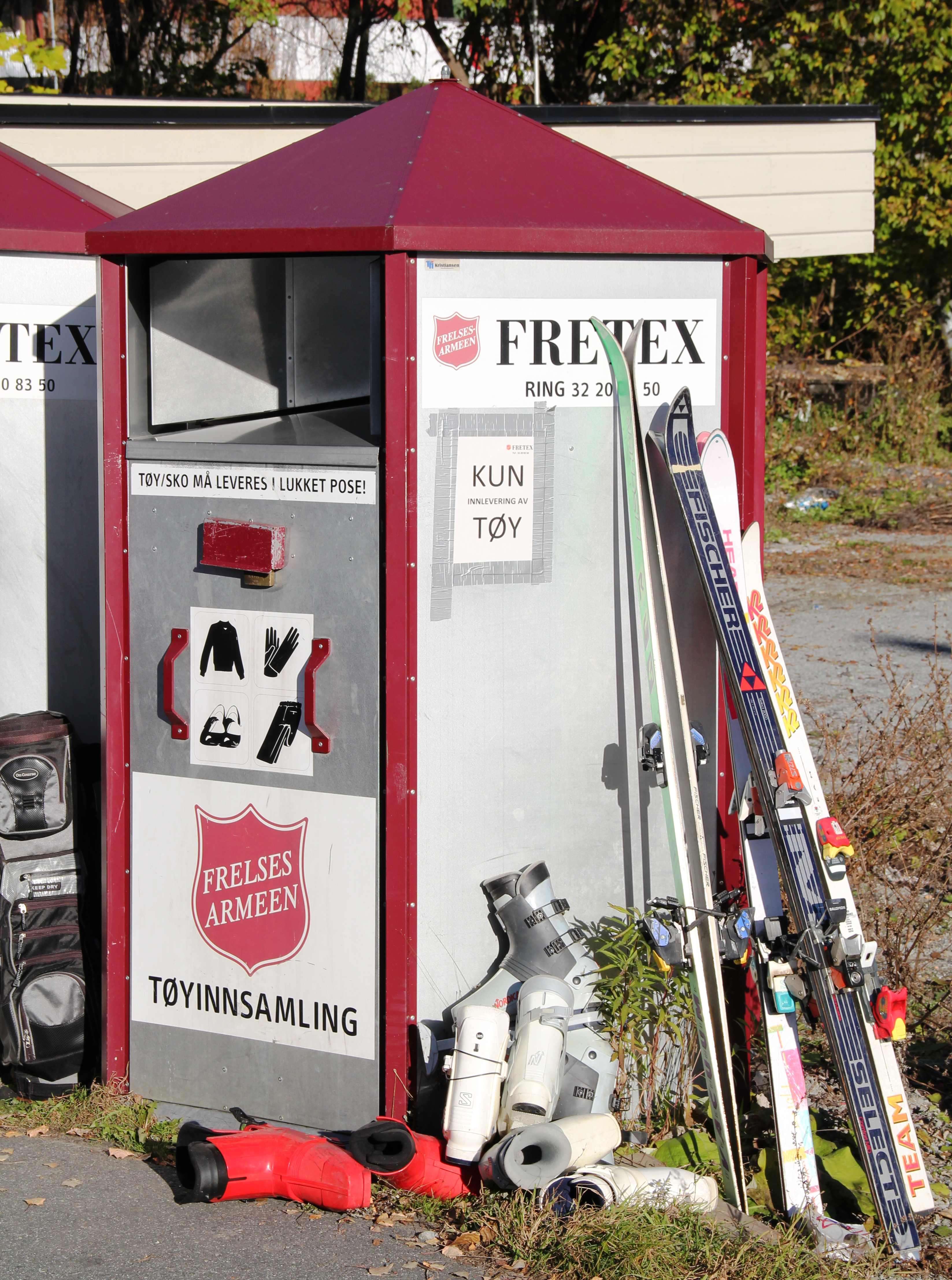 Fretex clothing donation box for the Salvation Army in Norway